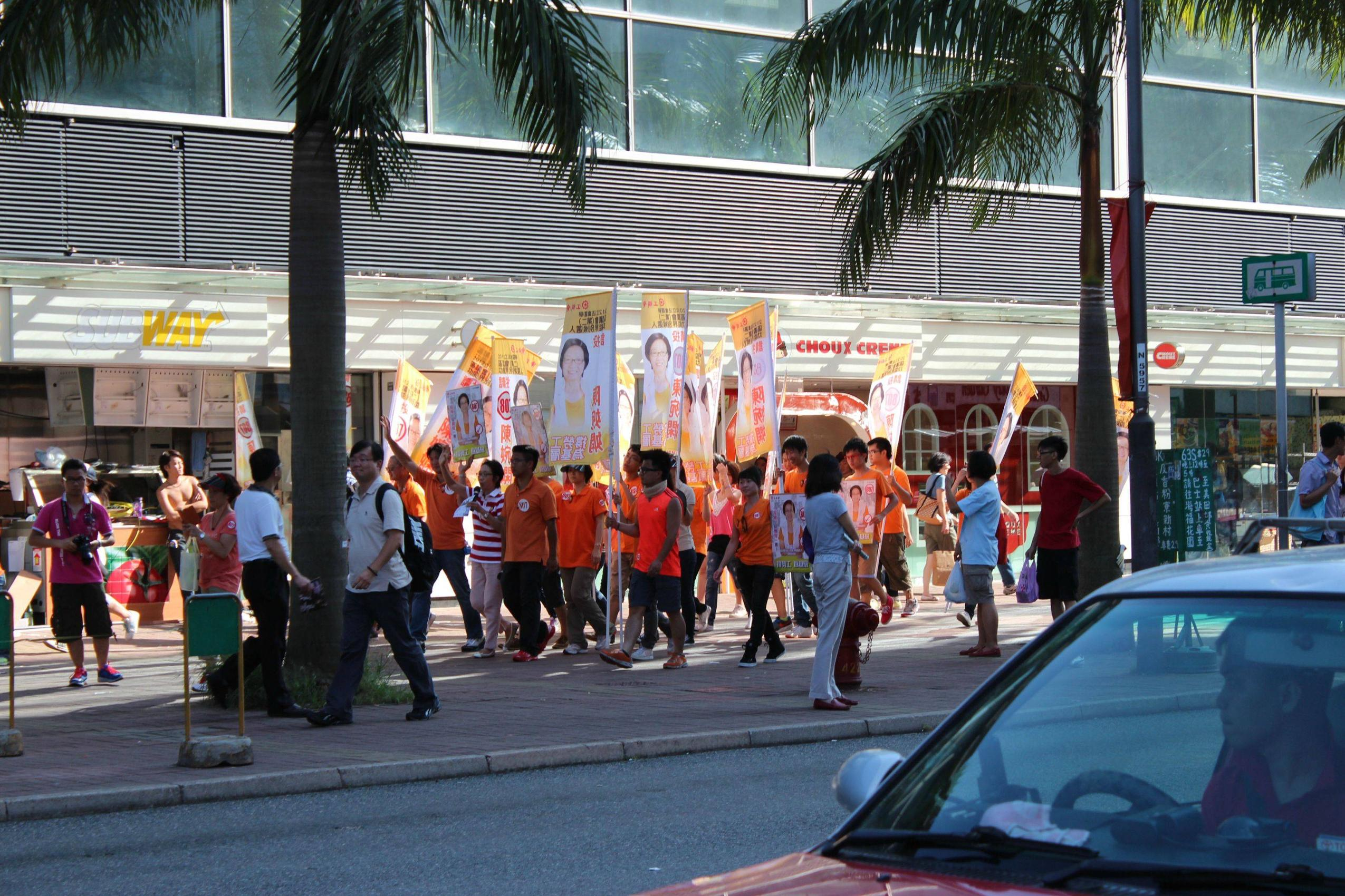 Chan Yuen-han at the Legislative Council Election,2012